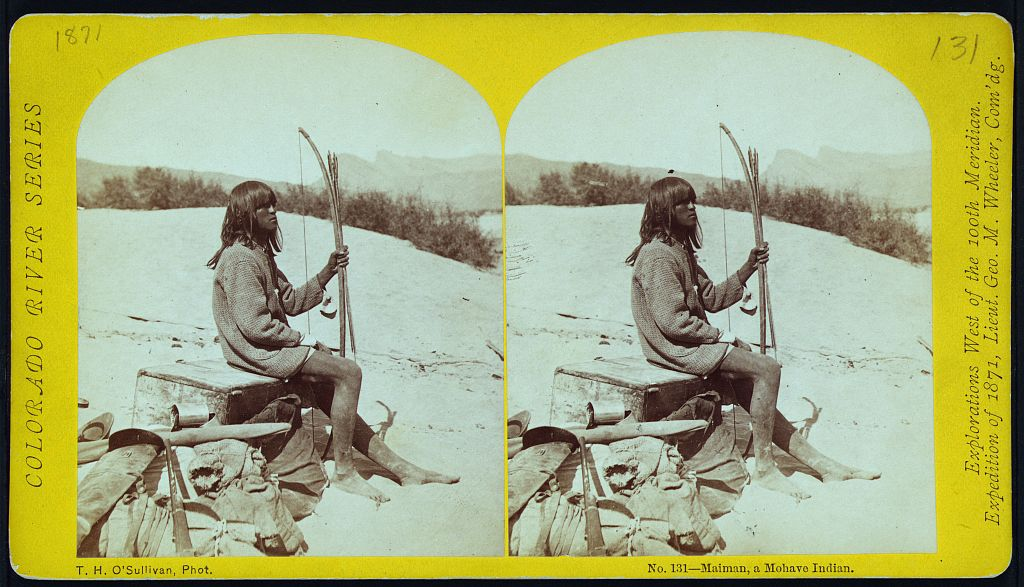 “Malman, a Mohave Indian” Colorado River Series, No. 131 Explorations of the 100th Meridian. Expedition of 1871. Lieutenant Geo. M. Wheeler, Com’dg. T.H. O’Sullivan, Photographer. The URL of this page is